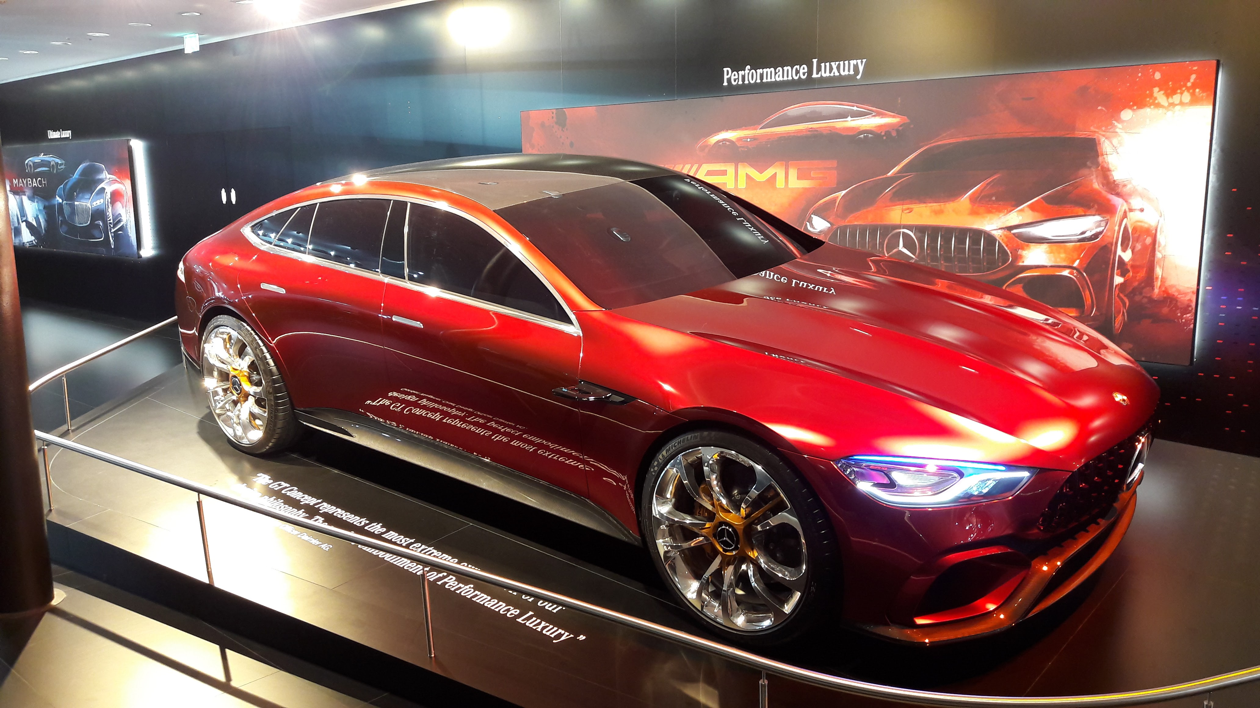 Mercedes-Benz Media Night, IAA 2017